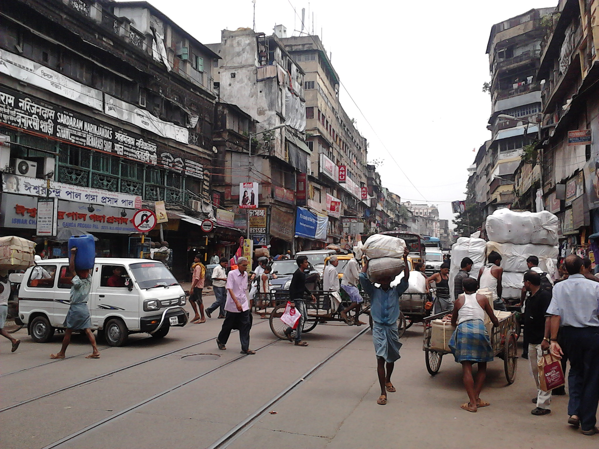 Roads in Kolkata. This media file is uploaded with India loves Wikipedia event.